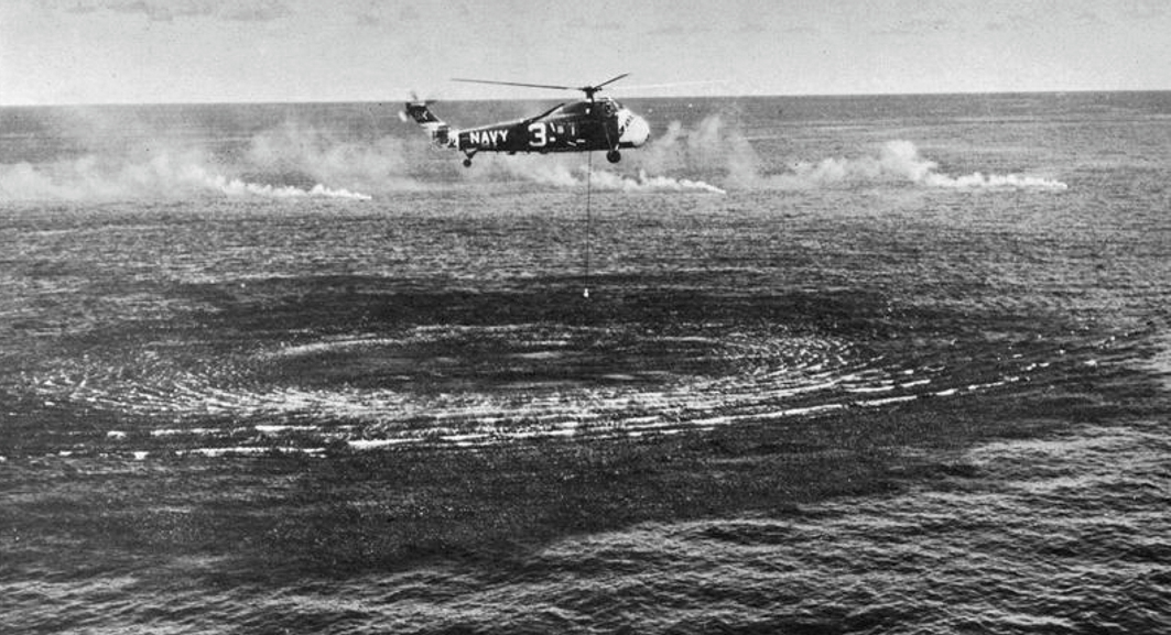 A U.S. Navy Sikorsky HSS-1 Seabat of Helicopter Anti-Submarine Squadron 2 (HS-2) "Golden Falcons" lowering its AN/AQS-5 sonar to hunt for submarines. Note the smoke markers. HS-2 was assigned to the aboard the aircraft carrier USS Hornet (CVS-12) for a deployment to the Western Pacific from 17 May to 18 December 1960.